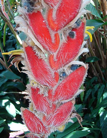 Dick Culbert: With blues berries and hanging out in Costa Rica, this fuzzy wonder is likely Heliconia danielsiana.